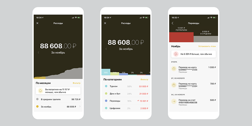 YandexMoney app